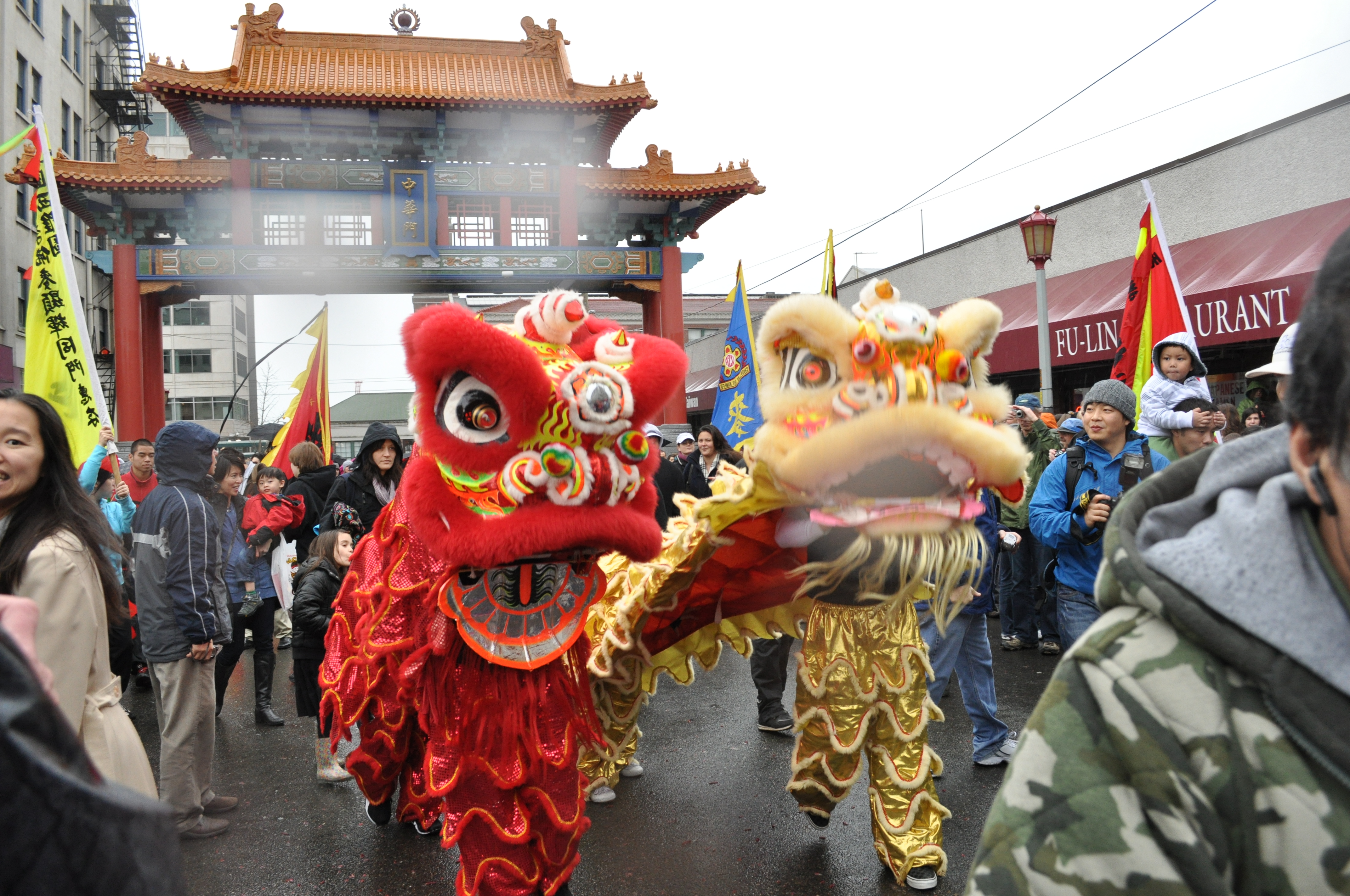 Lion dancers at Historic Chinatown Gate, Chinese New Year, Hing Hay Park, Seattle, Washington.